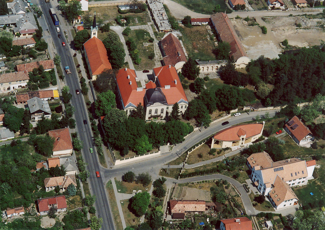 Palace - Pécel - Hungary - Europe